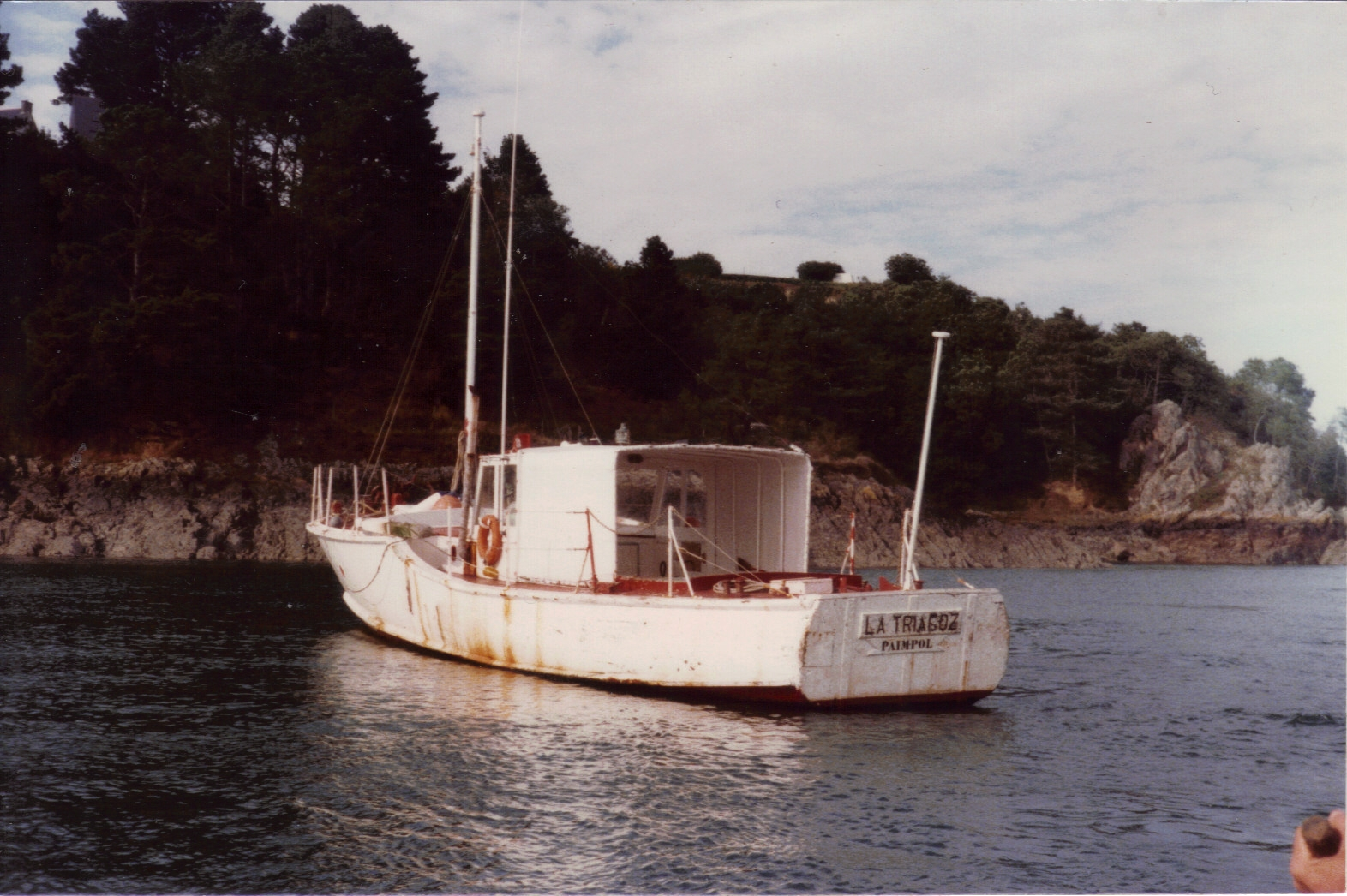 La Triagoz, former La Horaine, in 1977 in Trieux river, near Lézardrieux. By François Jouas-Poutrel, lighthouse keeper